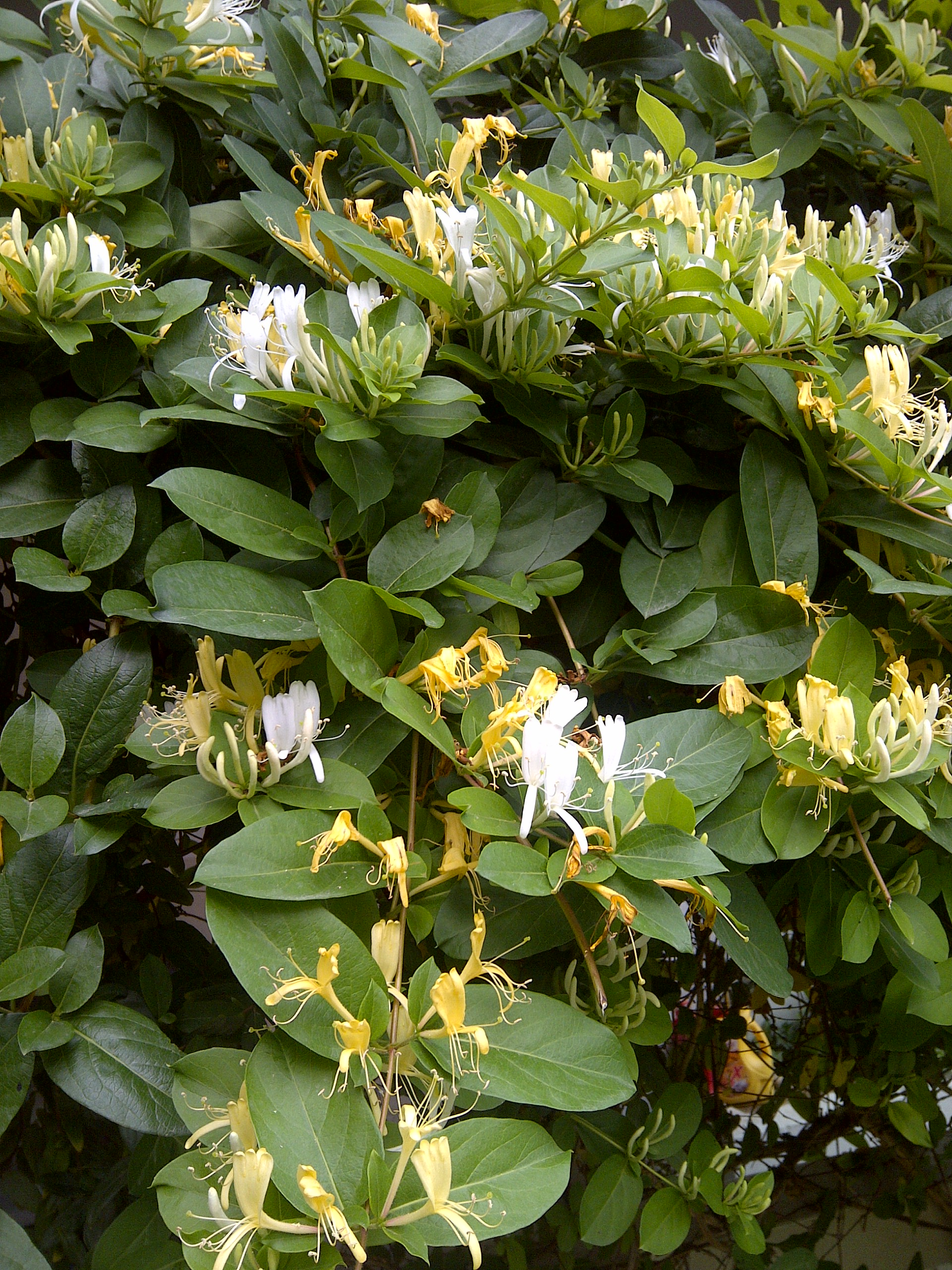 Honeysuckle